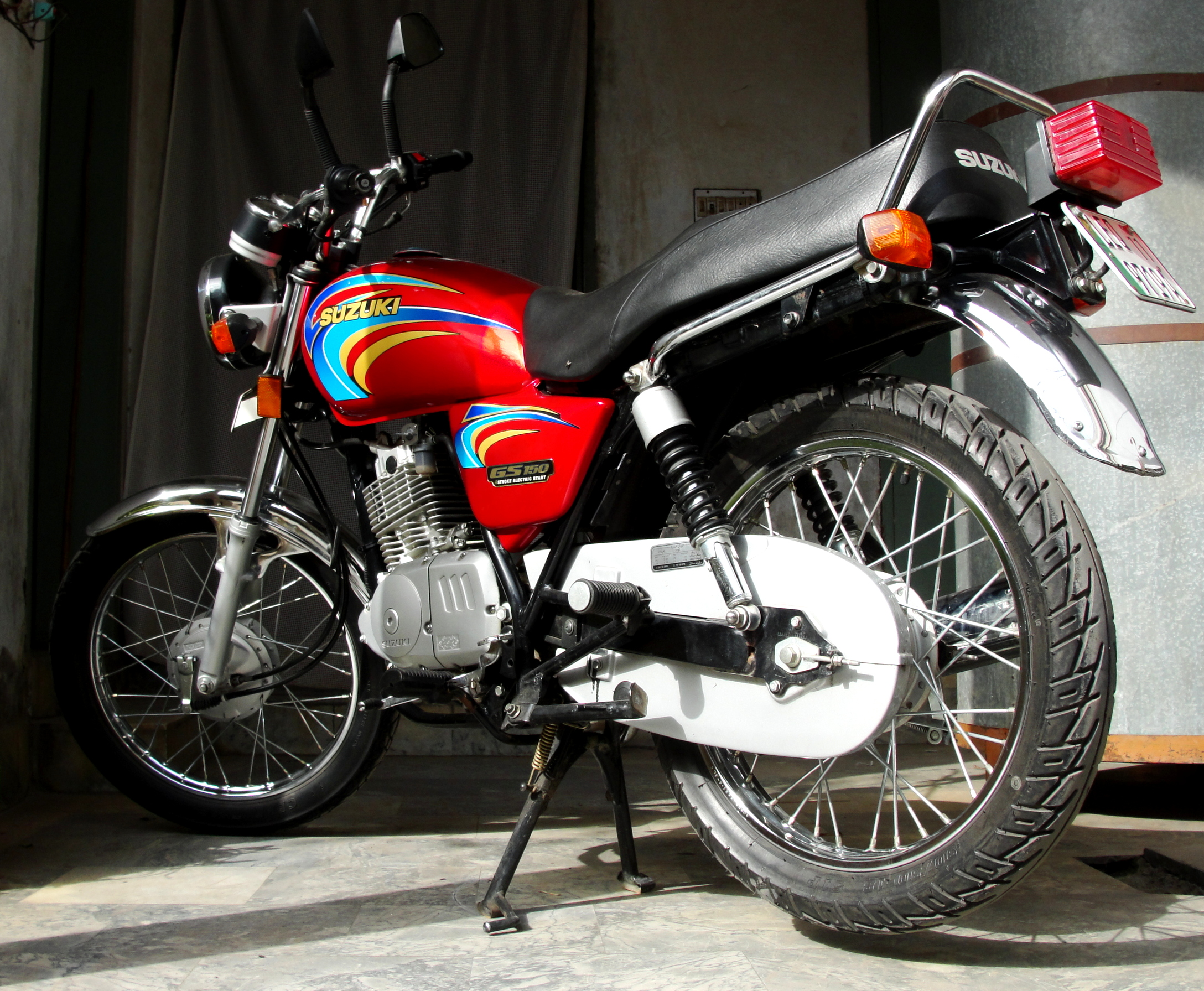 My Suzuki GS-150 Motorcycle, little monster that I got in 2011.